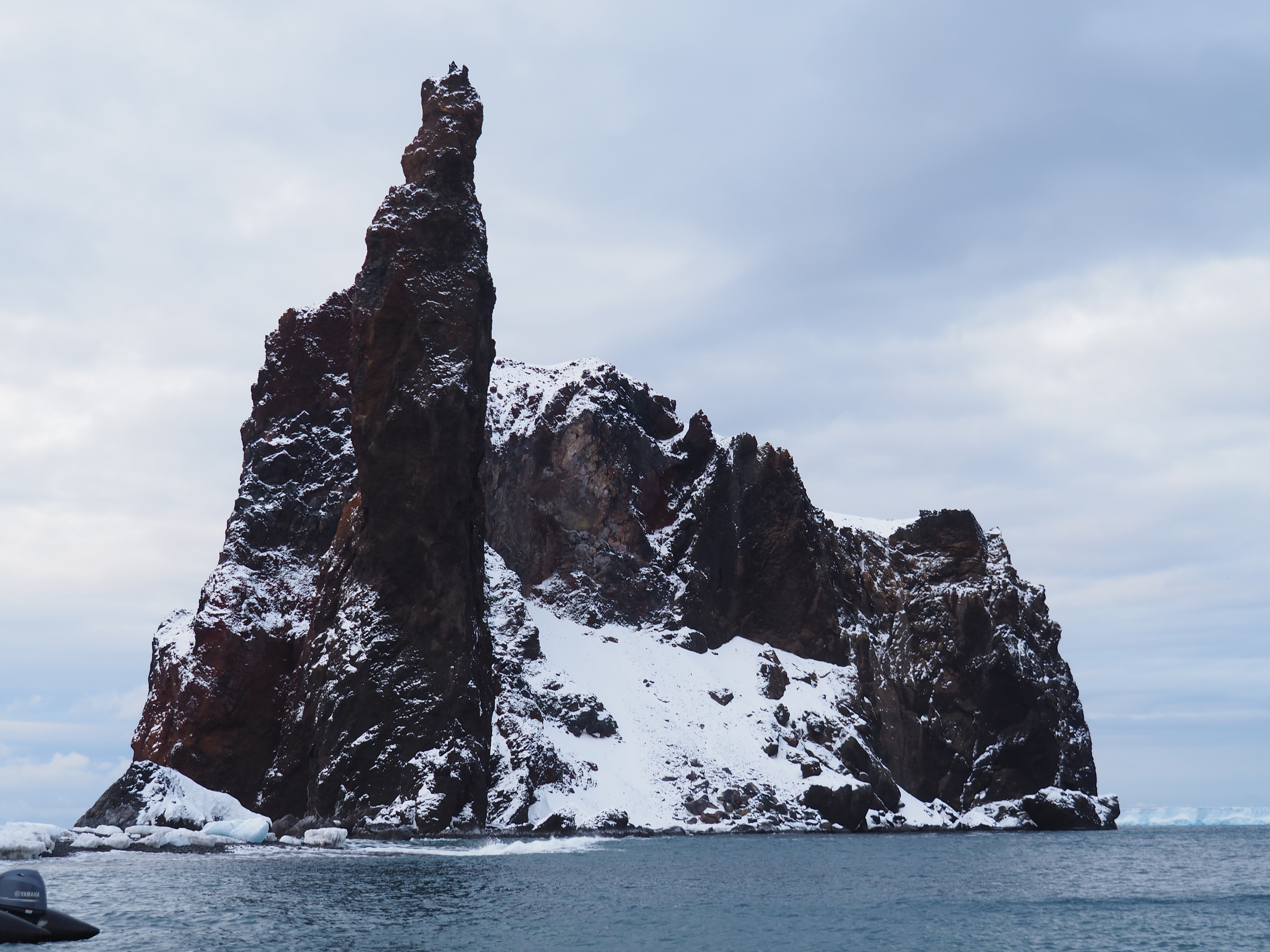 Monolith, Sabrina Island, Balleny Group, Antarctica